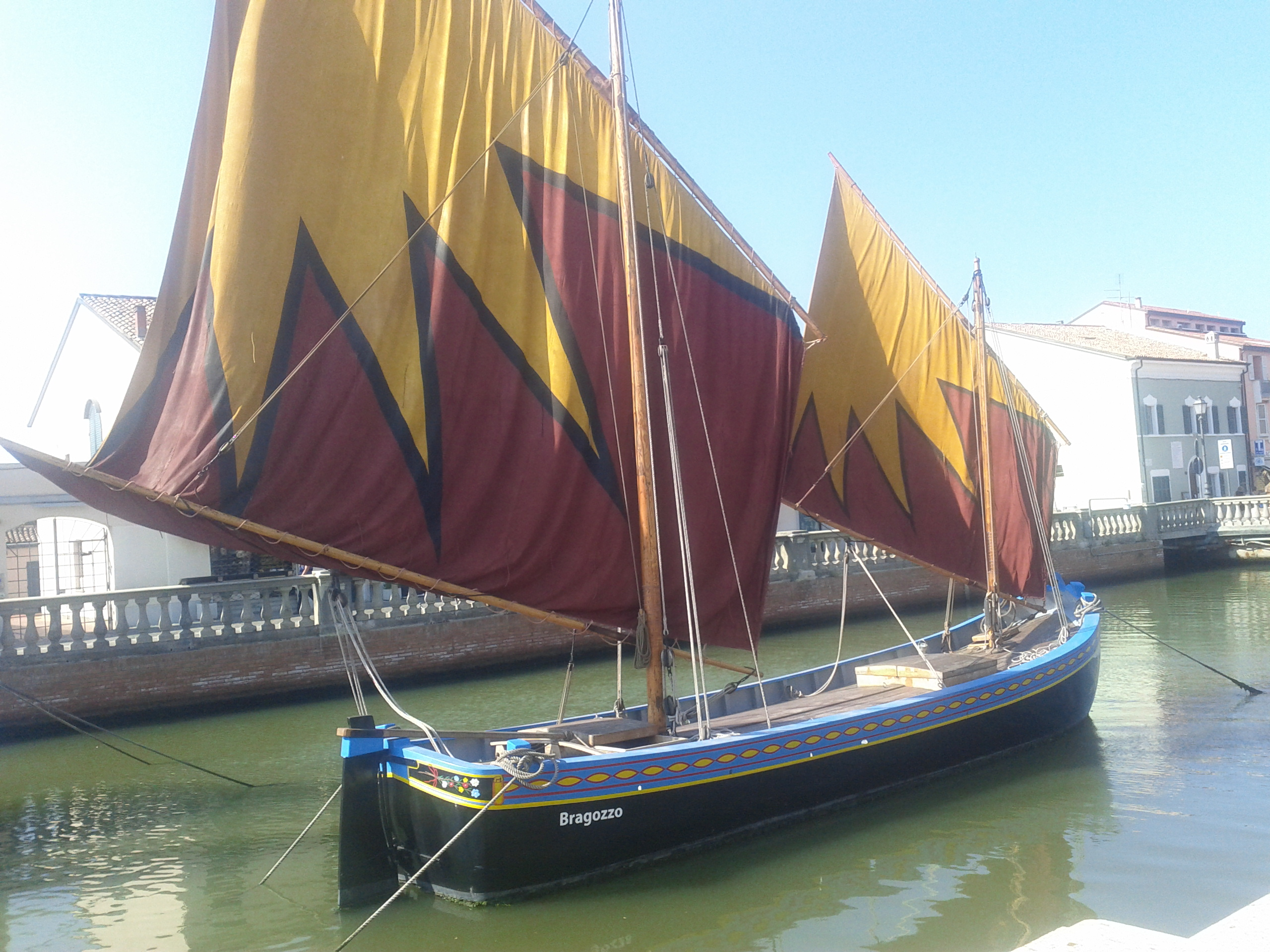 A Bragozzo ship at the museum of Cesenatico (Italy)